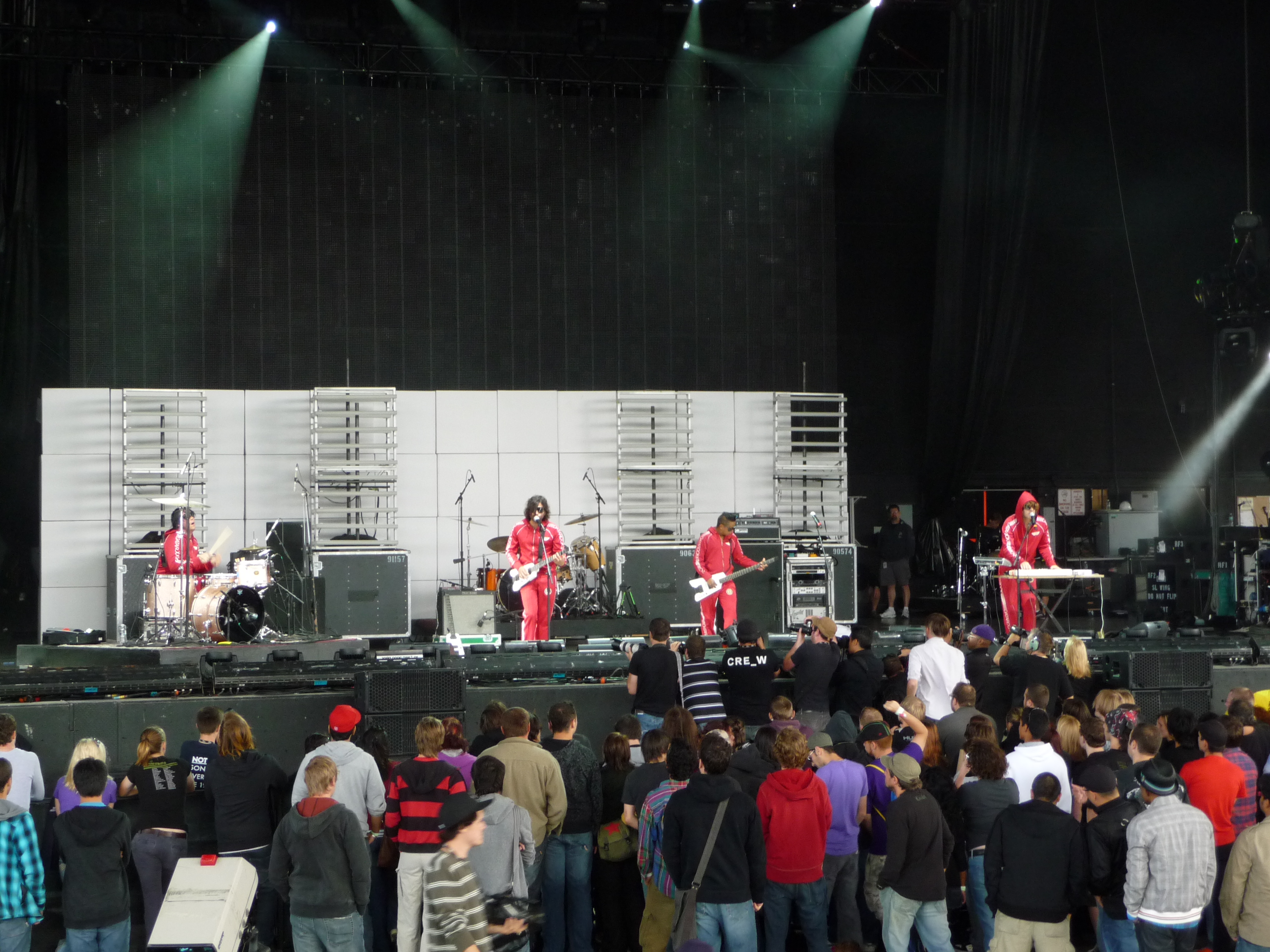 Datarock performing at Virgin Festival Ontario day 2 2009